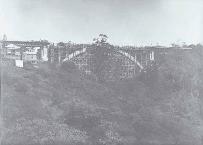 Grafton Bridge, Auckland, New Zealand, being built in 1909. Seen looking south-westwards, from approximately where the intersection of Grafton Road and Wellesley Street East is in 2010. Extended information on origin webpage reads: Photographer: Winkelmann, Henry Date: 1909 Description: Looking south along the Grafton Gully, showing the ferro-concrete Grafton Bridge under construction Subjects: Grafton Gully; Grafton Bridge; Construction Caption: [Looking south along the Grafton Gully, showing the ferro-....] Related ID's: Class No: 995.1102 G73 G73f